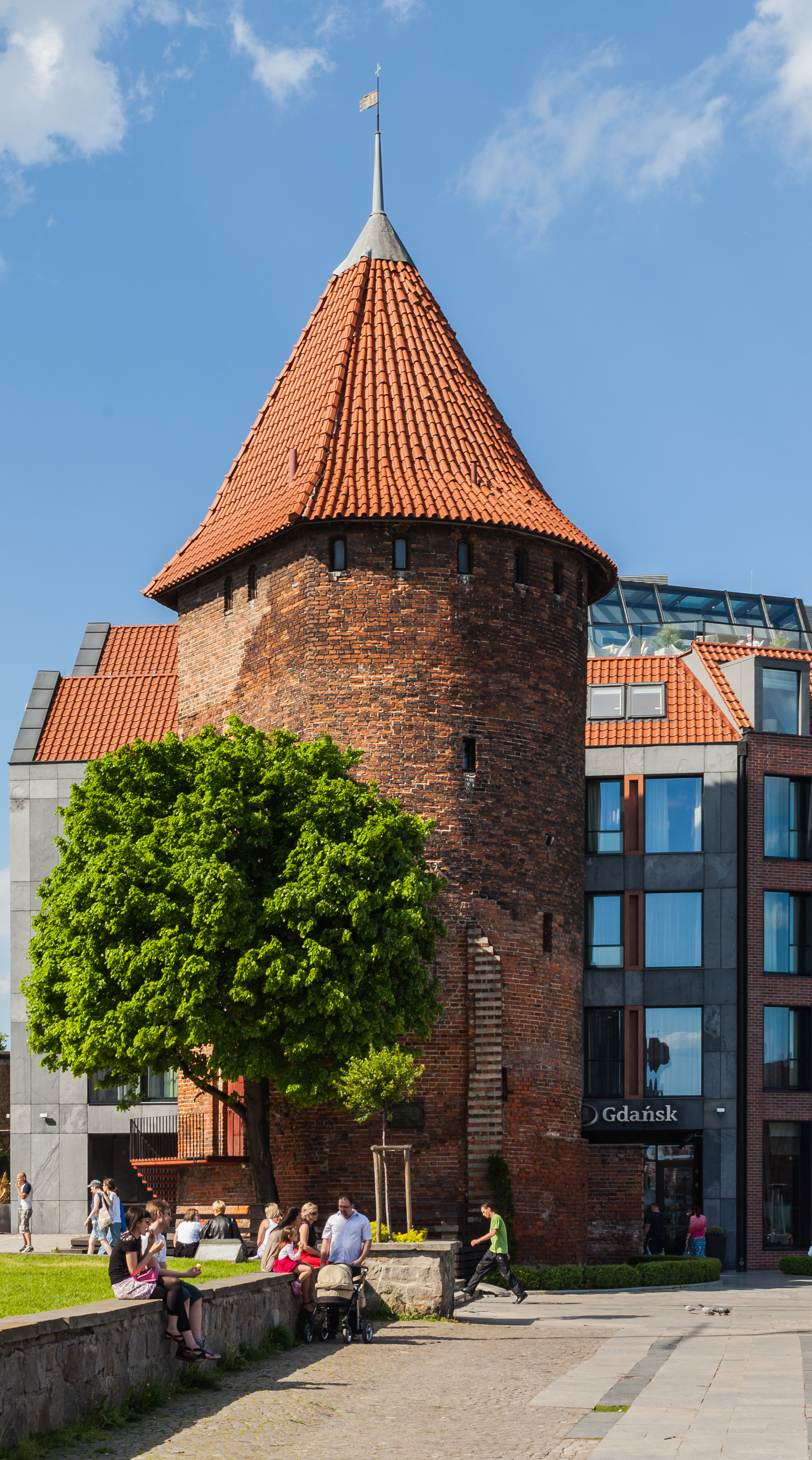 Swan Tower, Gdansk, Poland